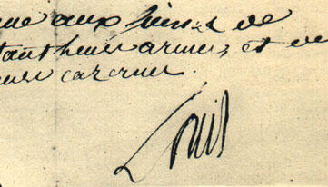 Louis XVI order to surrender 10 August 1792